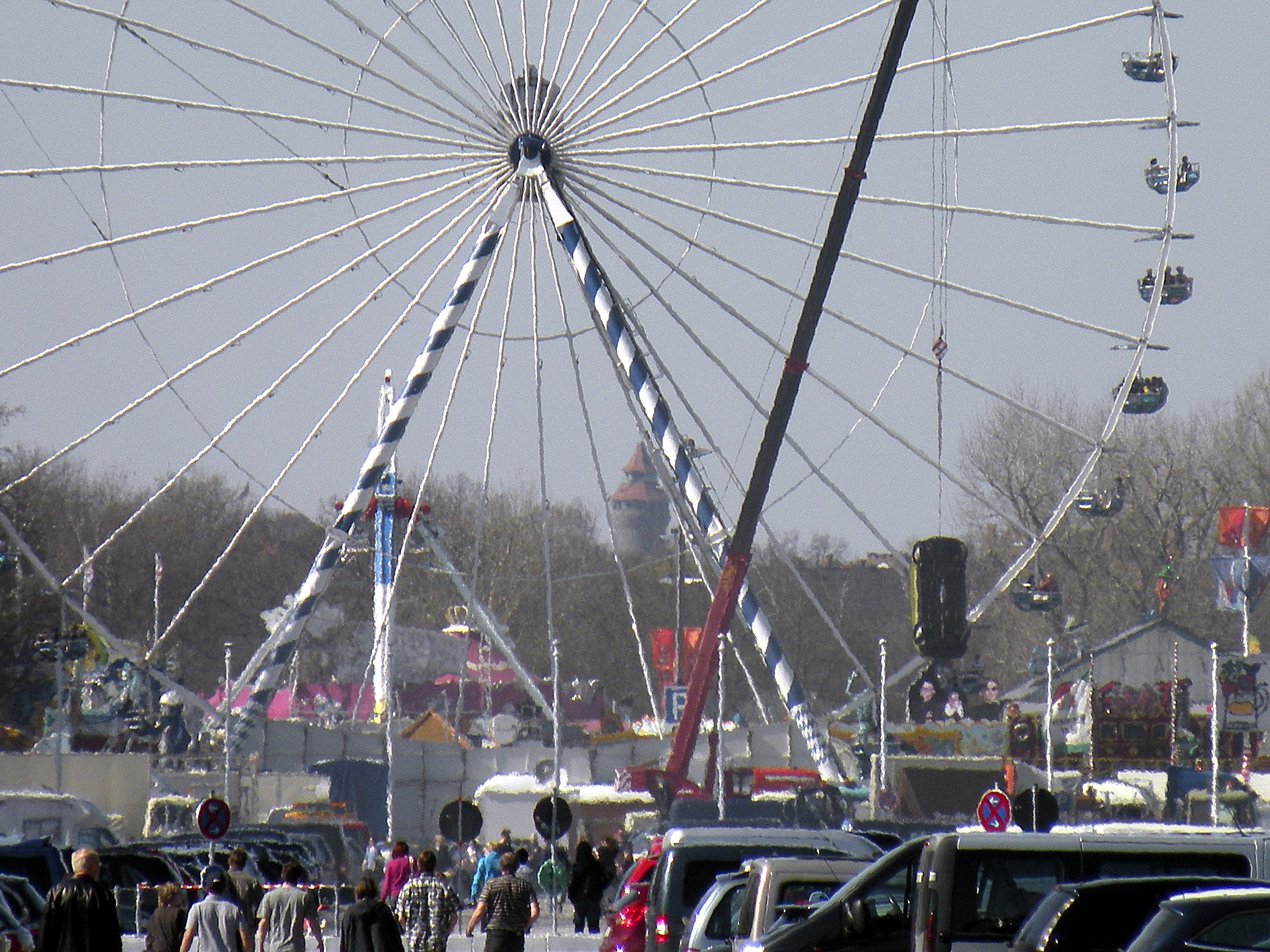 Great Road 3